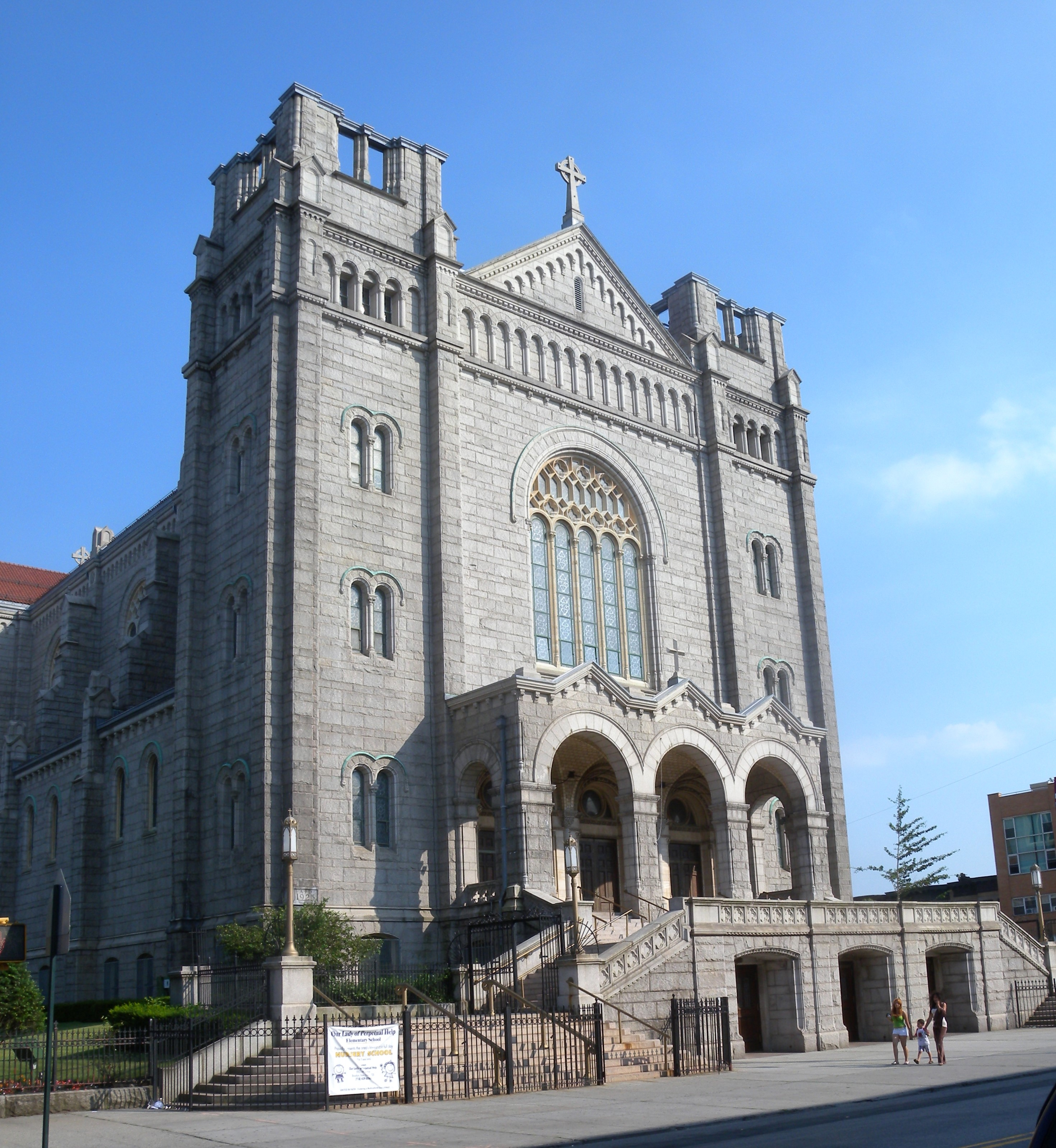 Looking south across 5th Avenue at OLPH on a sunny afternoon.